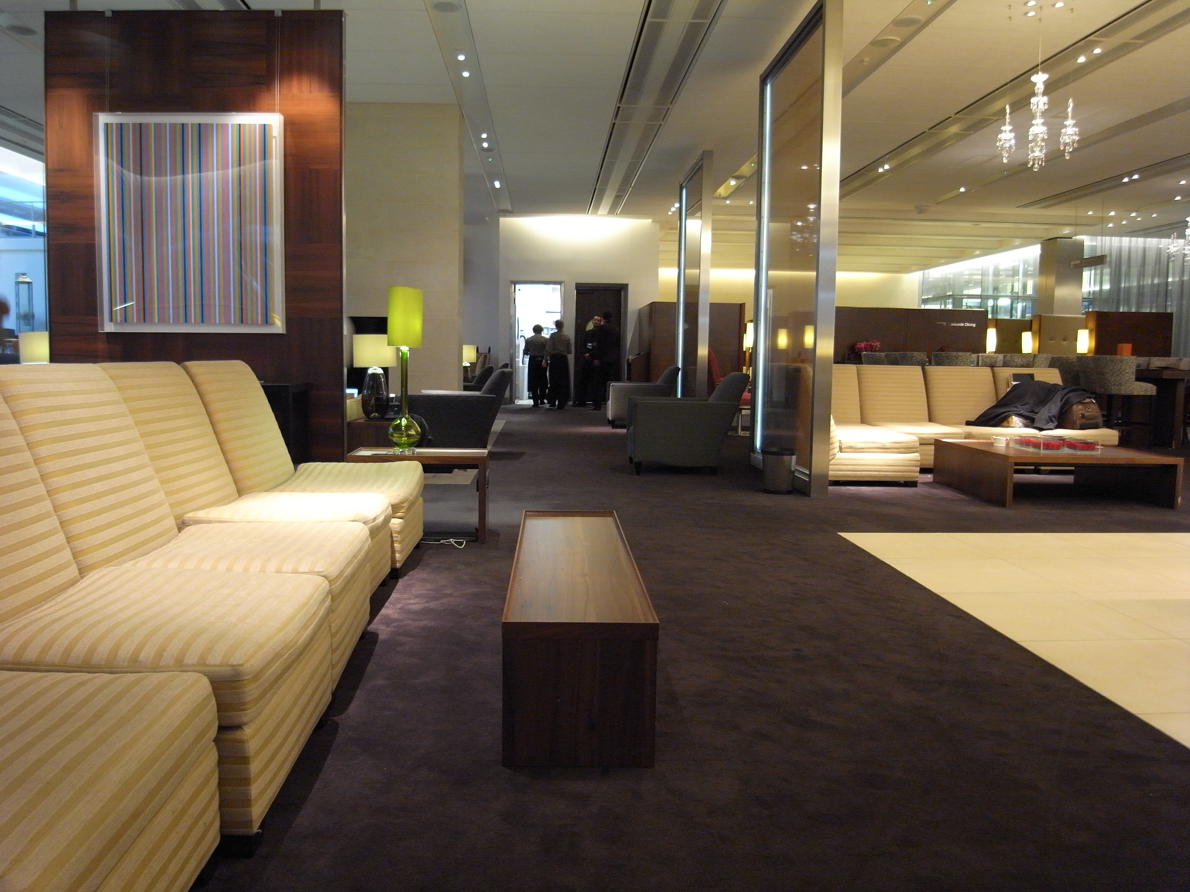 British Airways Heathrow Concorde Room